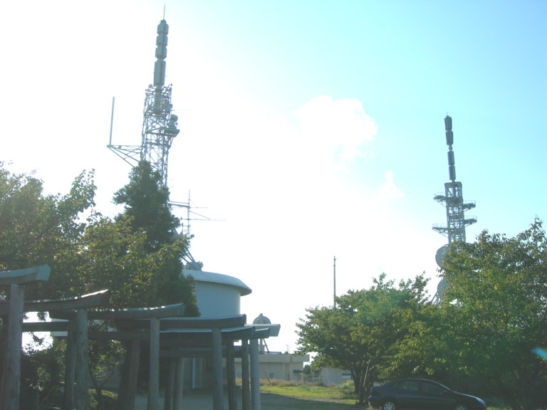 TV tower at Mt. Asama-yama in Ise city Mie Prf. Japan.